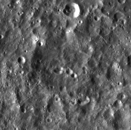 St. John lunar crater - LROC image. St John at center, buried under the ejecta blanket of Mendeleev